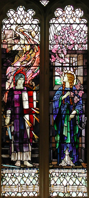 All Saints, Eastchurch, Kent - Window Stained glass by Karl Parsons